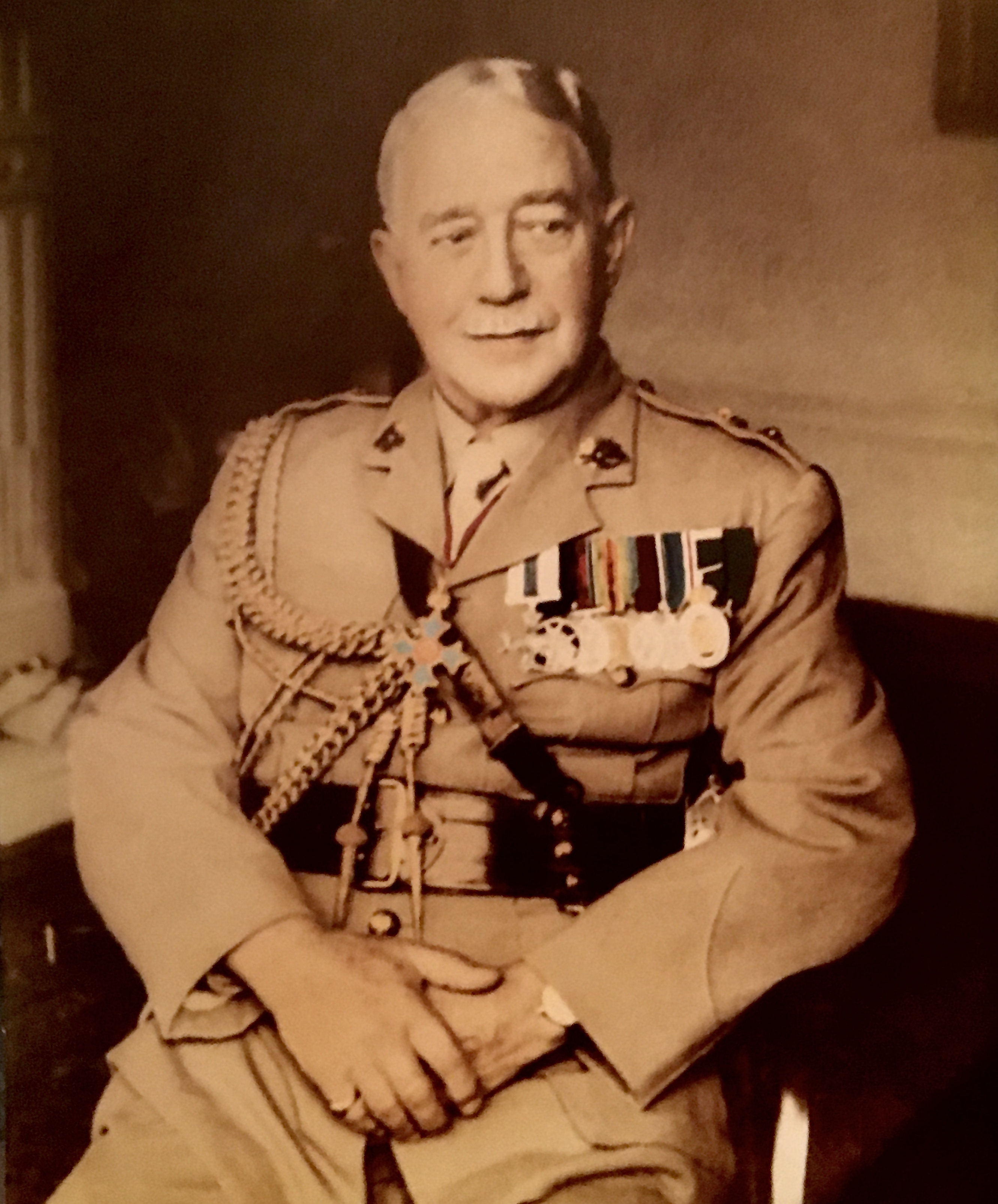 Digital copy of colorised portrait of Lieutenant Colonel Harold Arthur Faulkner Wilkinson CBE MC VD wearing ceremonial service uniform including aiguillettes of an Aide-de-Camp. Circa 1949.